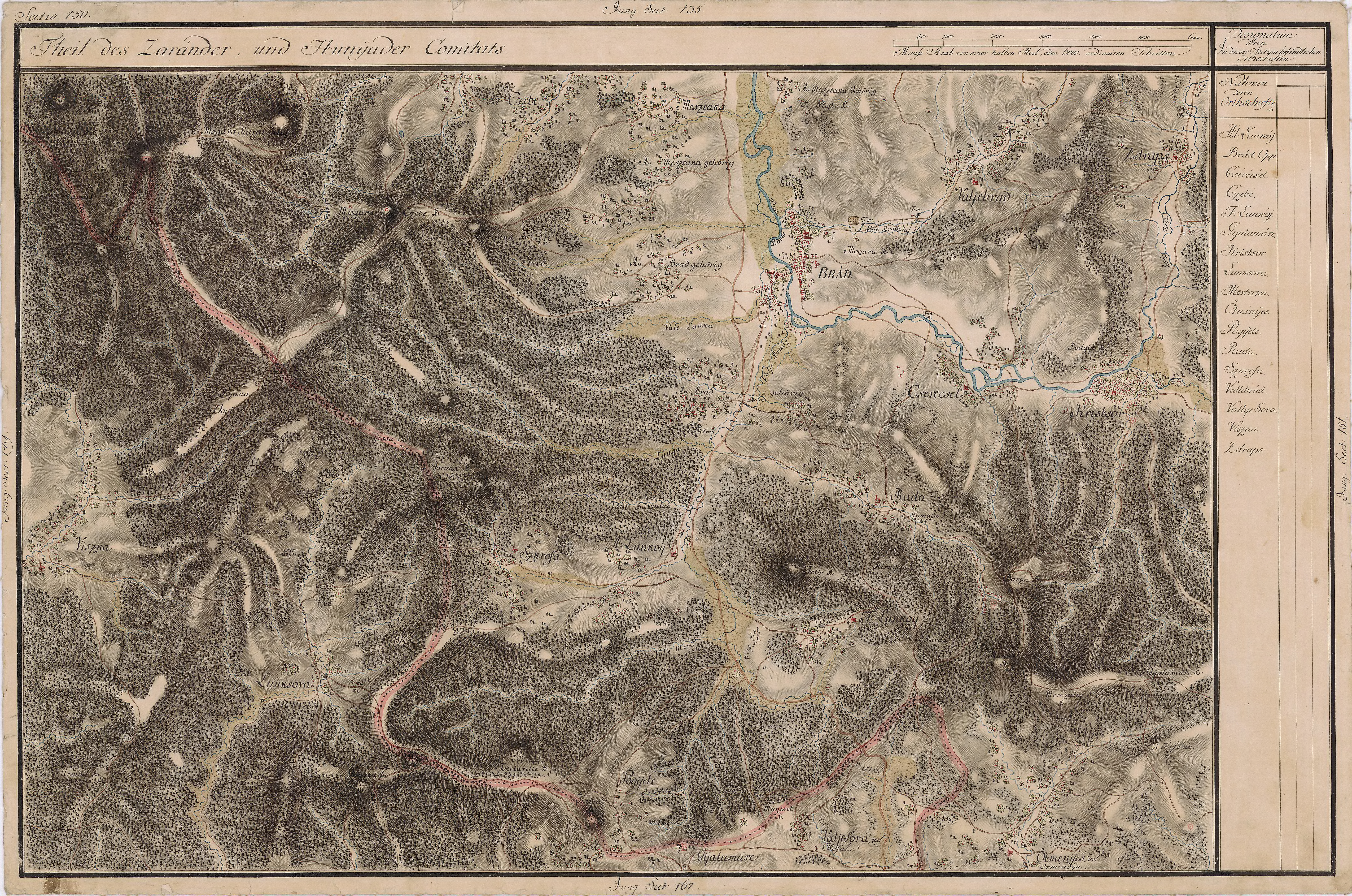 Grand Duchy of Transylvania, 1769-1773. Josephinische Landaufnahme pg.150